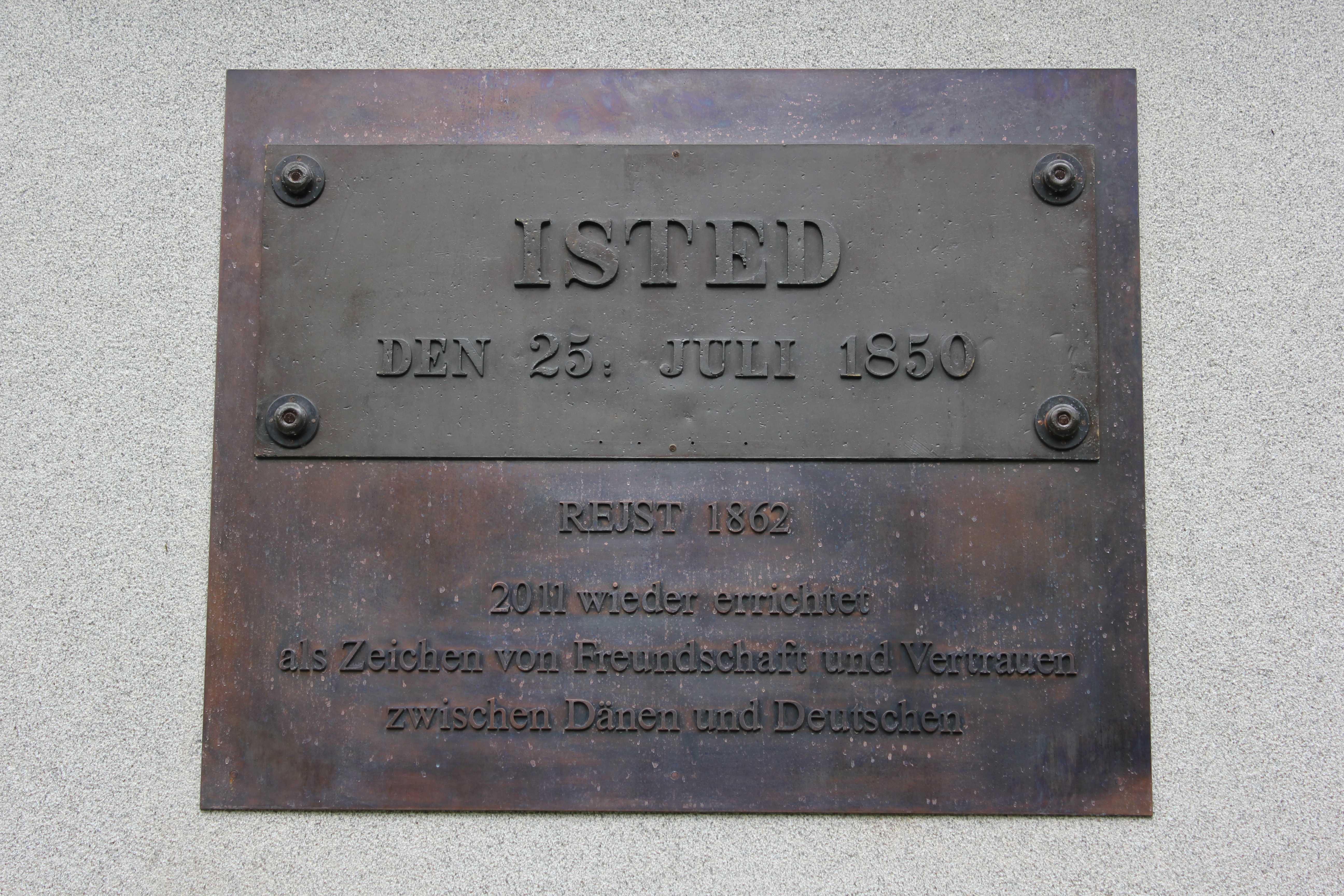 Original Flensburg Lion, which is now back in Flensburg, new plaque front side